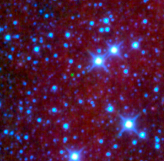 That green dot in the middle of this image might look like an emerald amidst glittering diamonds, but it is actually a dim star belonging to a class called brown dwarfs. This particular object, named "WISEPC J045853.90+643451.9" after its location in the sky, is the first ultra-cool brown dwarf discovered by NASA's Wide-field Infrared Survey Explorer, or WISE. WISE is scanning the skies in infrared light, picking up the signatures of all sort of cosmic gems, including brown dwarfs. The mission's infrared vision makes it particularly good at picking brown dwarfs out of a starry sky. This view shows three of WISE's four infrared channels, color-coded blue, green and red, with blue showing the shortest wavelengths of infrared light and red, the longest. The methane in the atmospheres of brown dwarfs absorbs this color-coded blue light, and the objects themselves are too faint to give off a lot of the red light. That leaves green. As can be seen in this picture, the little green dot of a brown dwarf stands out against the sparkly, hotter blue stars. The brown dwarf is located 18 to 30 light-years away in the northern constellation of Camelopardalis, or the giraffe; in fact, the brown dwarf is positioned right on the neck of the giraffe, adorning it like an emerald necklace. This is one of the coolest brown dwarfs known, with a temperature of roughly 600 Kelvin, or 620 degrees Fahrenheit.